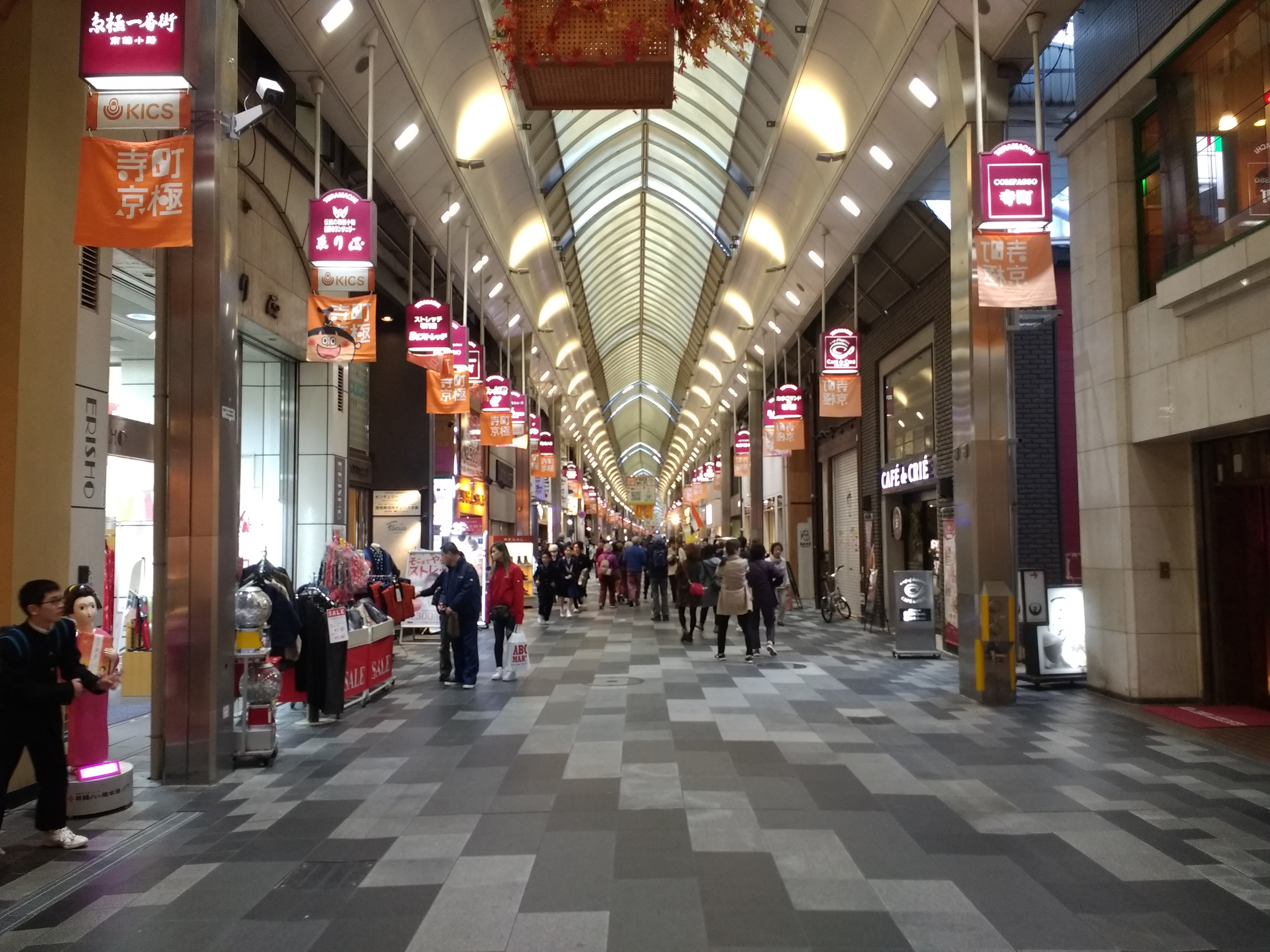 Enclosed shopping area on Teramachi Street in Kyoto, Japan.